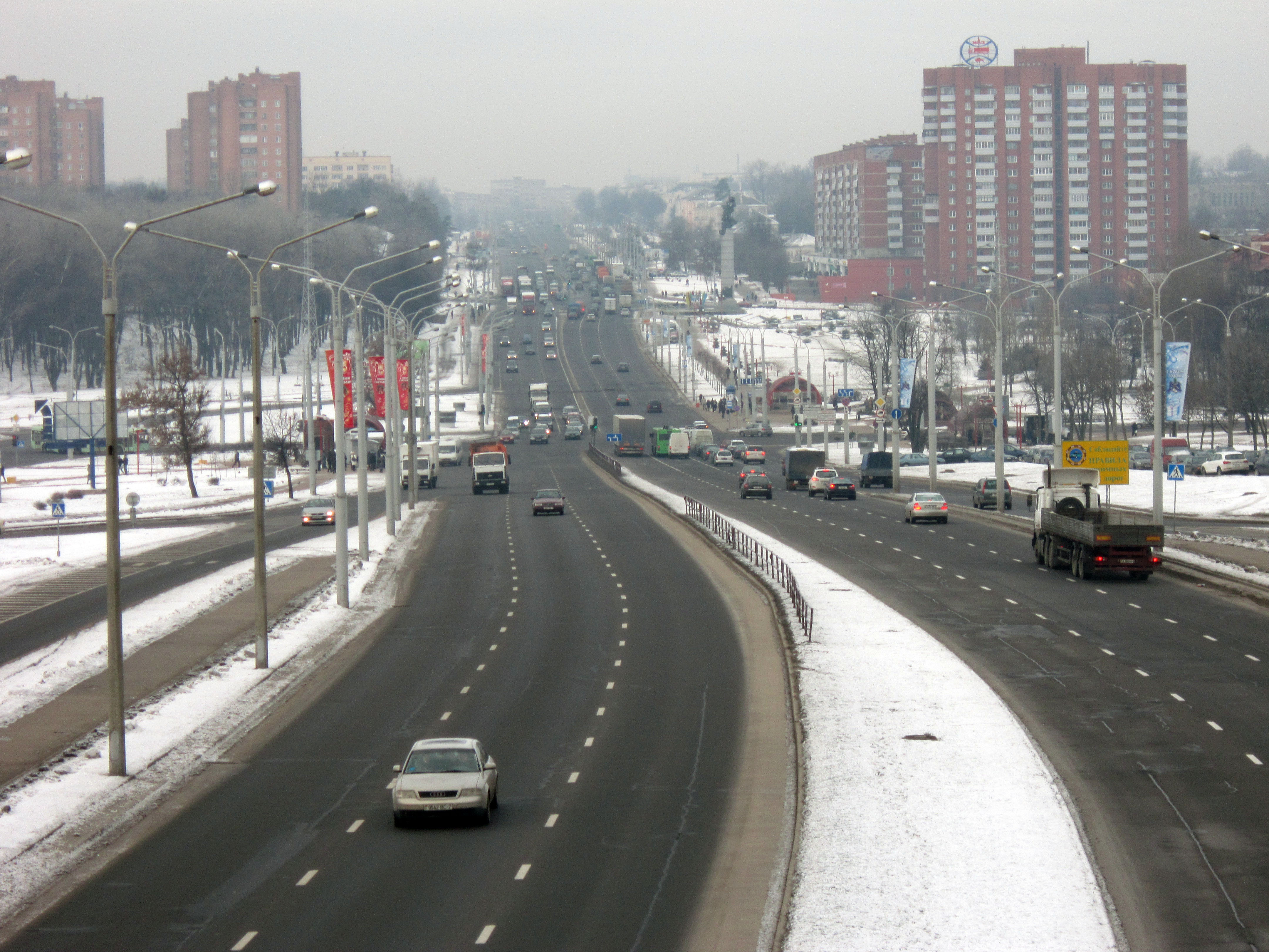 Partyzanski avenue in Minsk. Underground station Mahilyoǔskaya can be seen.